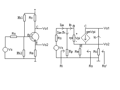 BJT small signal model